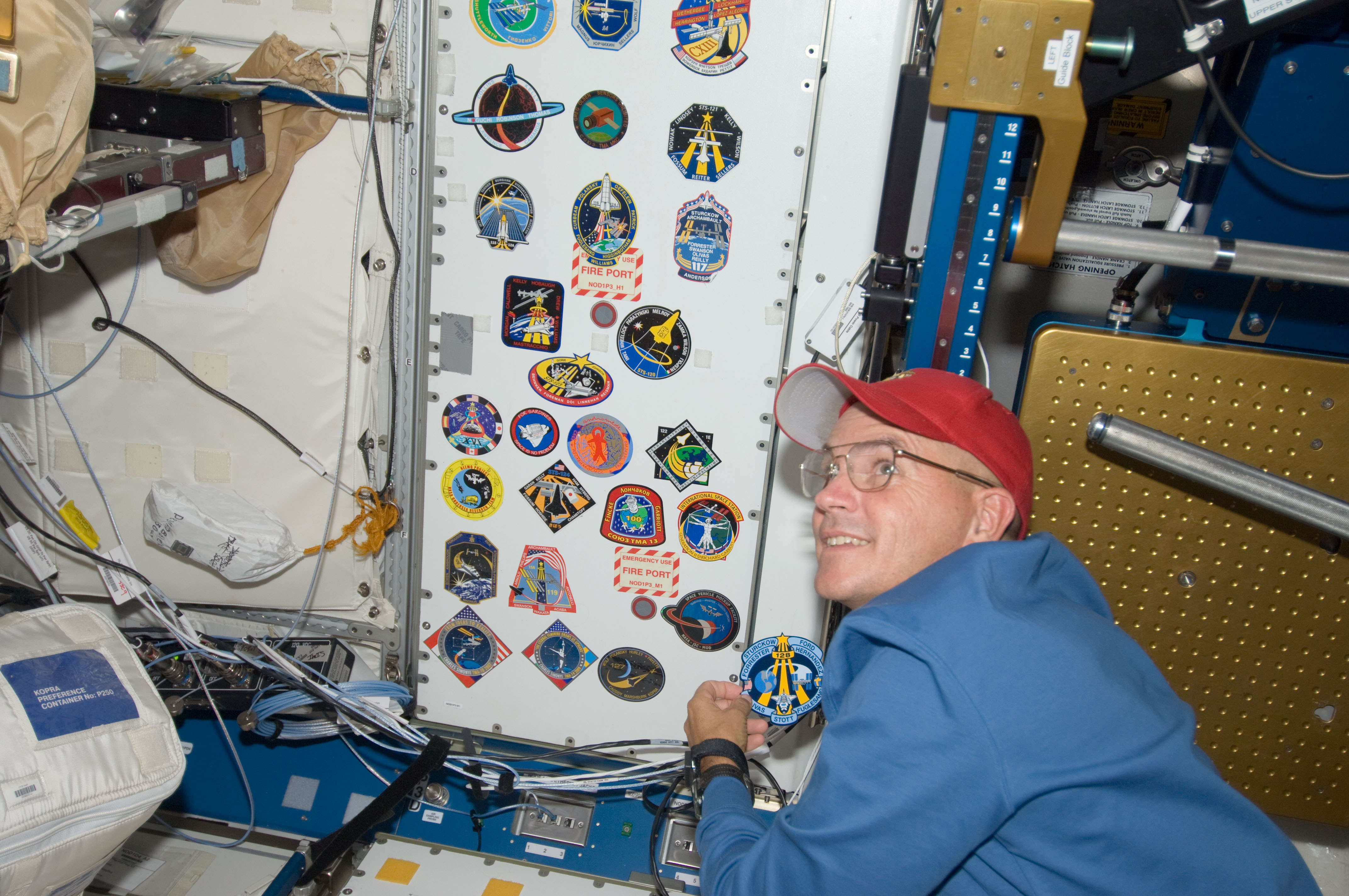 NASA astronaut Rick Sturckow, STS-128 commander, adds his crew's patch to the growing collection, in the Unity node, of insignias representing crews who have worked on the International Space Station.